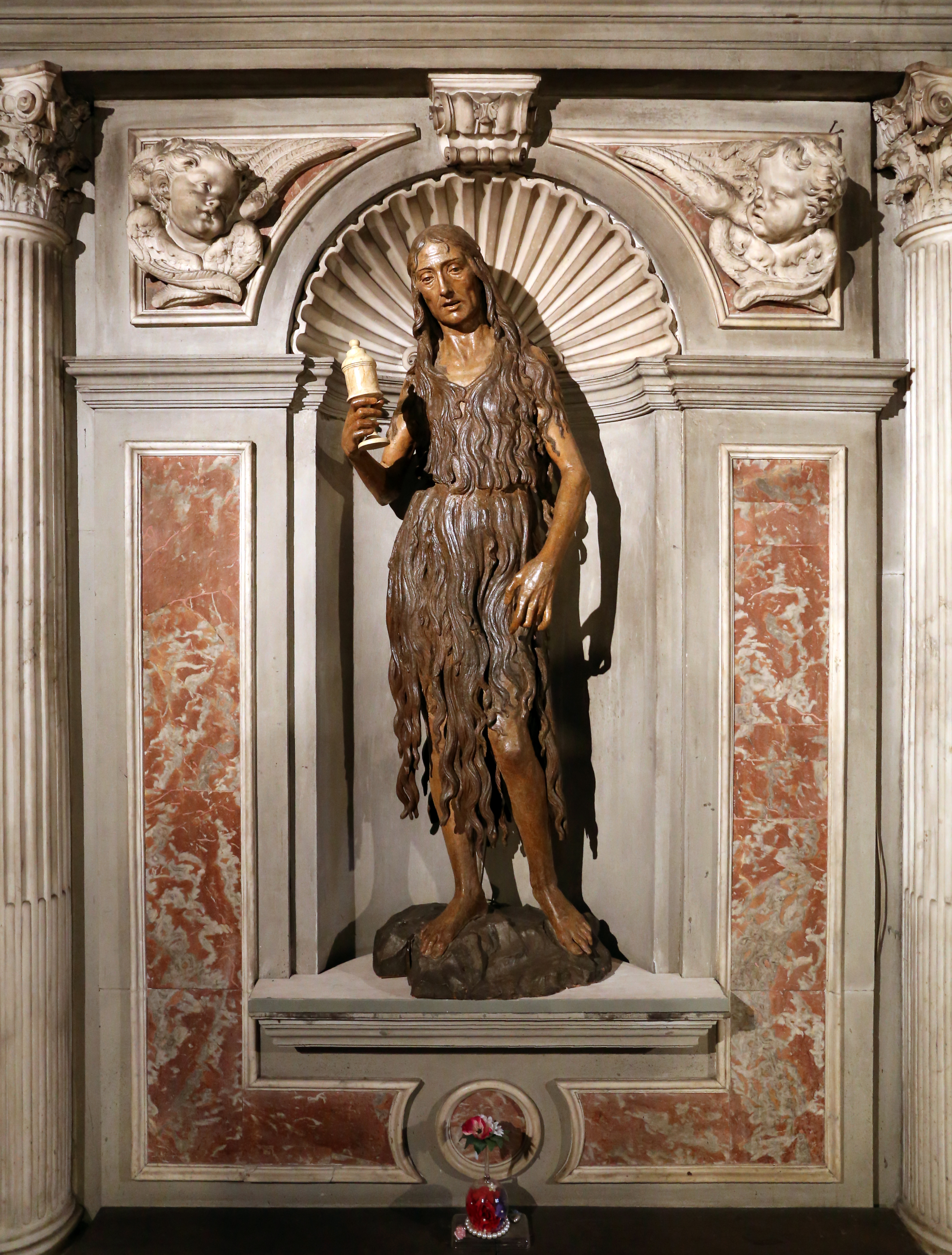 Mary Magdalene by Desiderio da Settignano